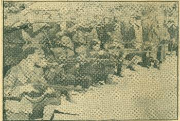 Guerrillas of Greek People's Liberation Army shot Bulgarian military responsible for the massacre of the Greek population. September 1944, Kavala, Eastern Macedonia, Greece.